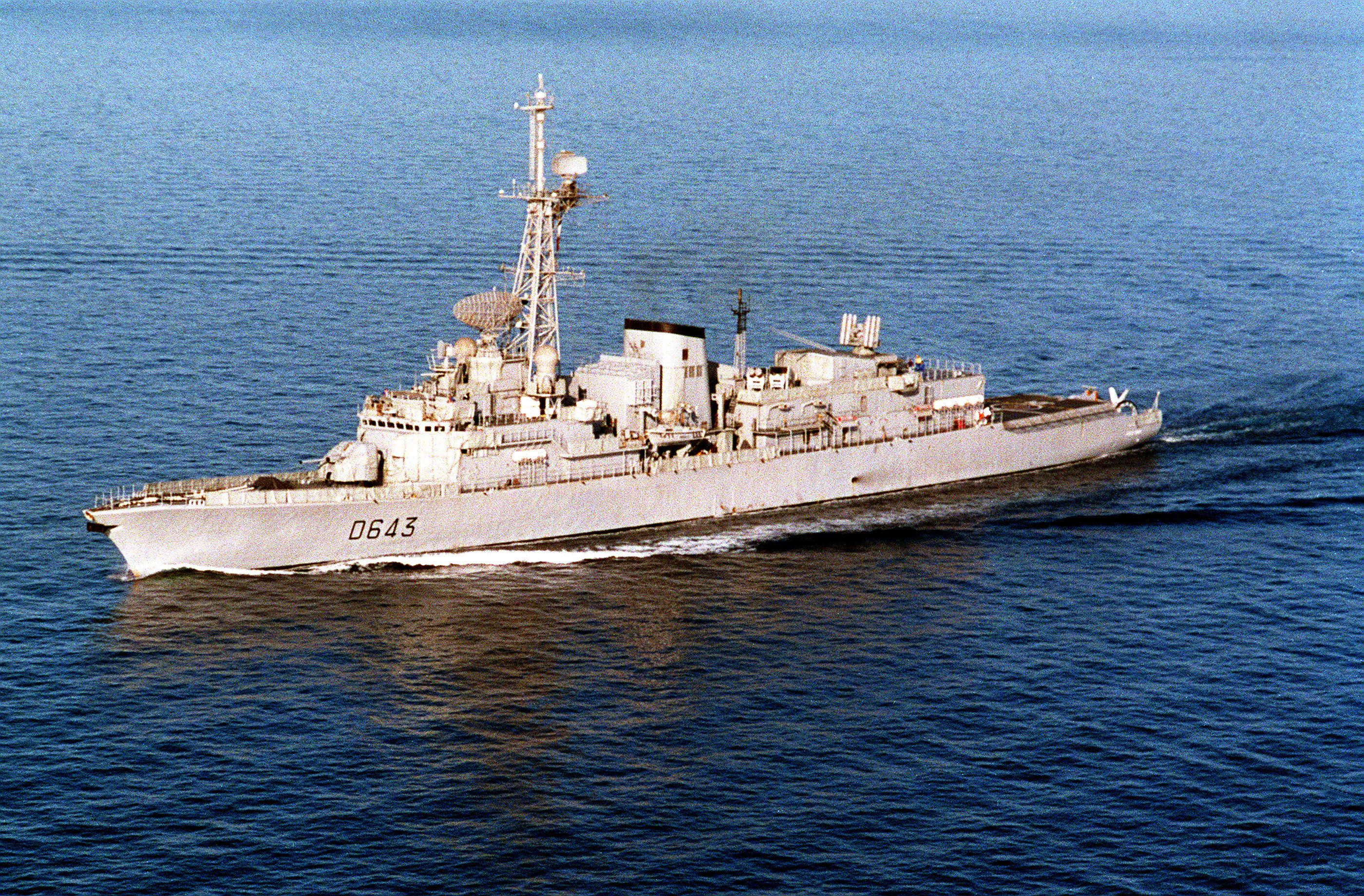 A port bow view of the French destroyer FS Jean de Vienne (D-643) underway while on patrol as part of the Maritime Interdiction Force (MIF). The MIF was formed during Operation Desert Shield to enforce U.S. trade sanctions against Iraq.